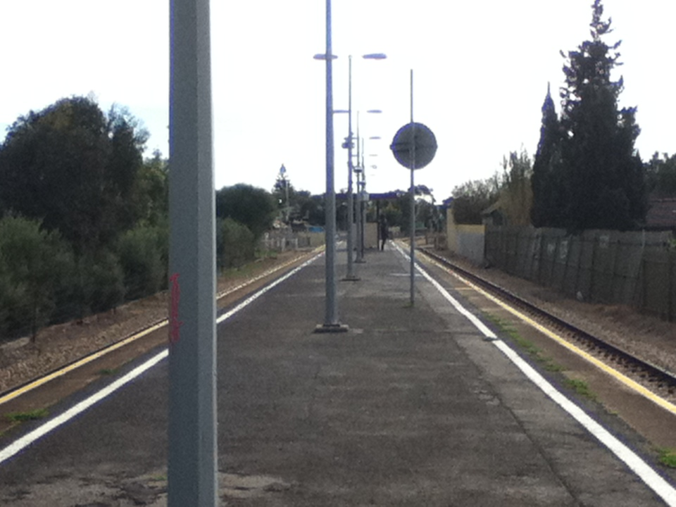 The platform of peterhead station